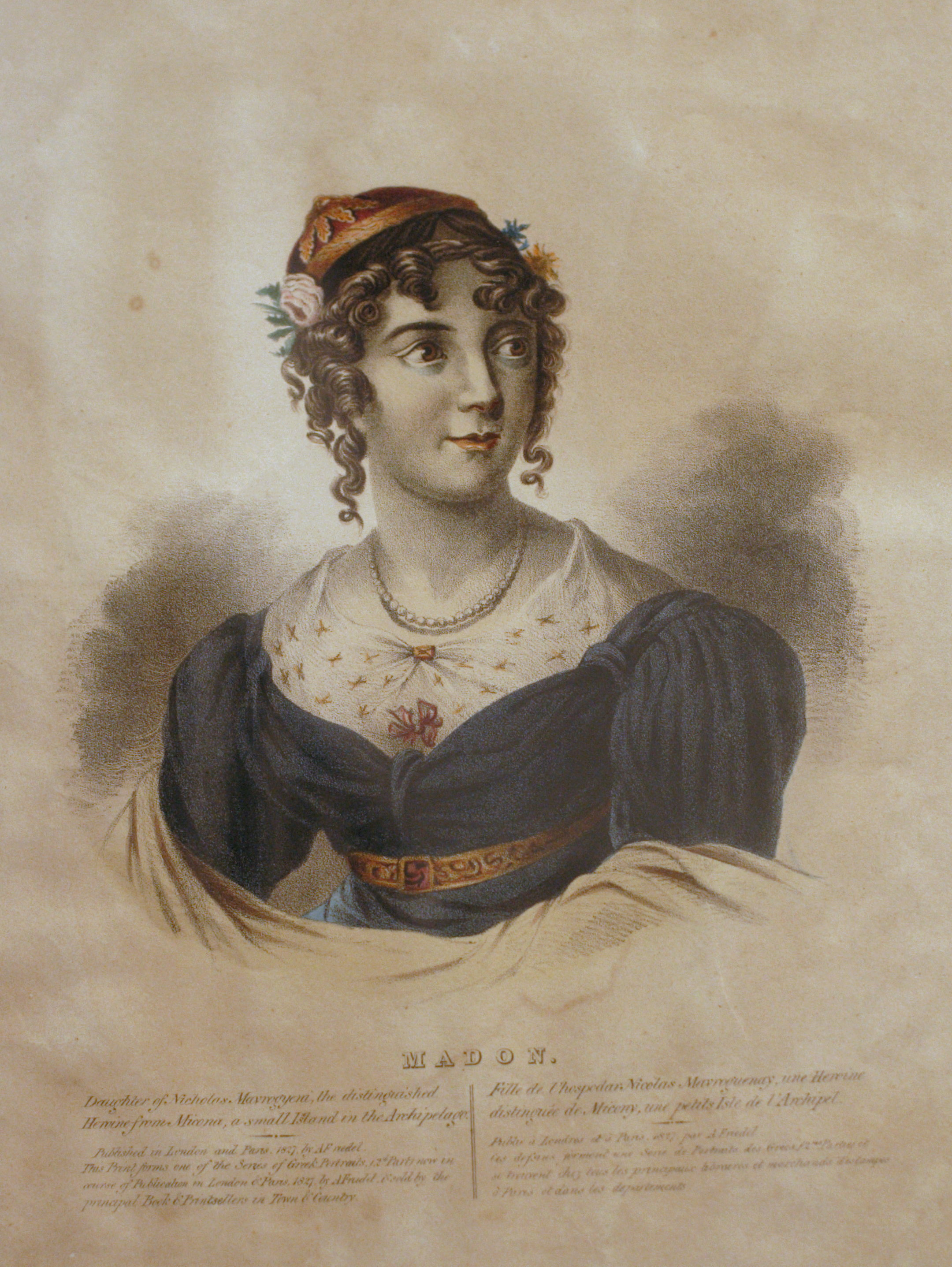 Heroine Manto Maurogenous (Mado Mavrojenous, 1796-1848), also known as Madon. Commander Mykonos corsairs during the uprising of 1821 and in the Greek war of liberation. Mykonos, Aegean Maritime Museum.